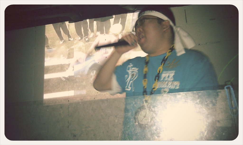 Taken with picplz at MOGRA in Taito Ward, Japan.